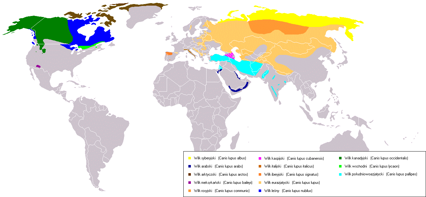 Canis lupus distribution, Polish.